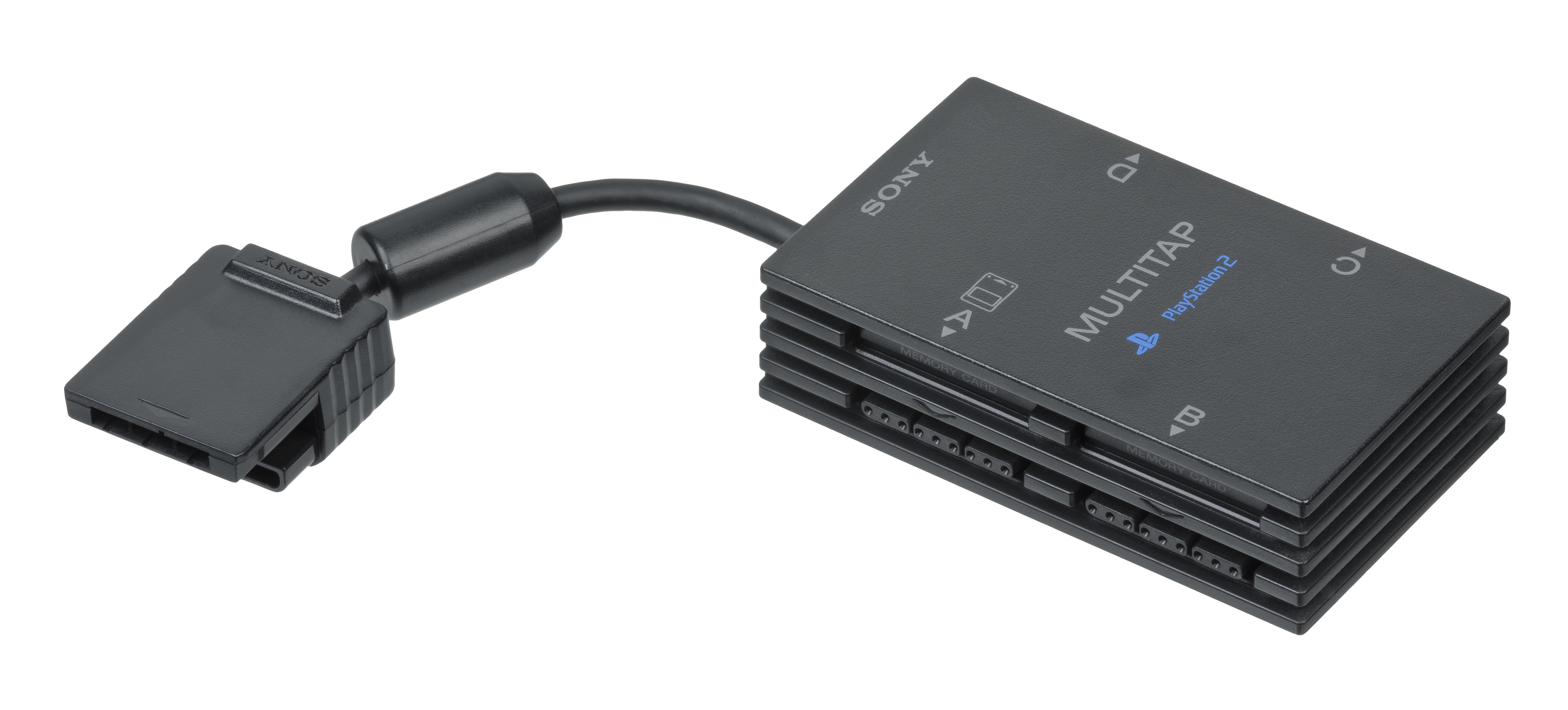 The official PlayStation 2 Multitap (SCPH-10090) for the Sony PS2 video game console, which added four controller and memory card ports. Two multitaps would provide up to eight players at once.